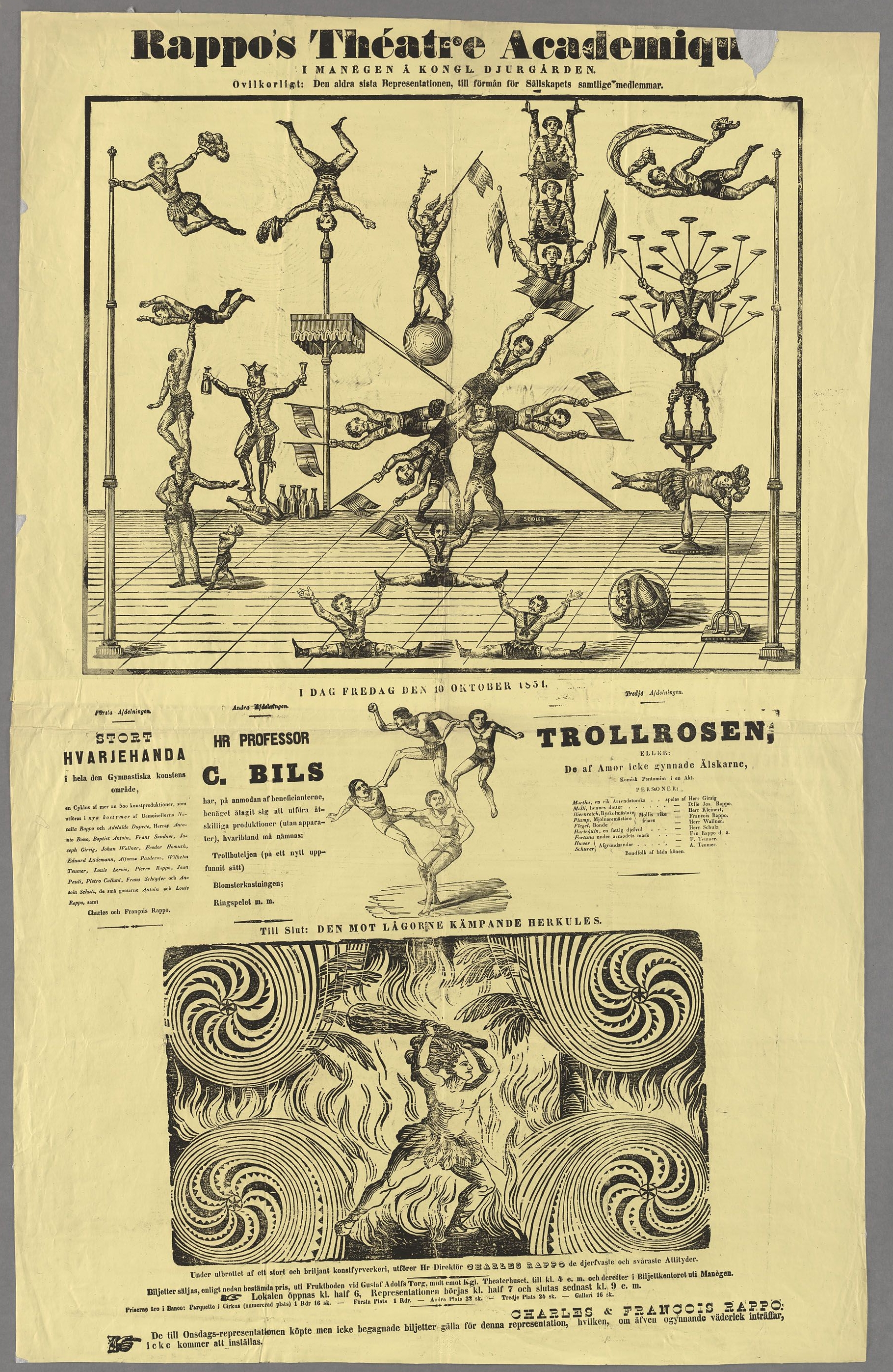 Circus Poster from 1851. Charles and Francois Rappo performing in Stockholm.